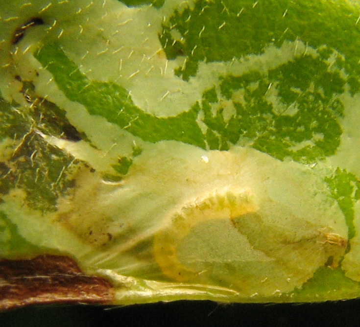 Leaf miner, Phyllocnistis magnoliella caterpillar, inside mine on magnolia leaf. Briar Bush Nature Center, Montgomery County, Pennsylvania, USA.